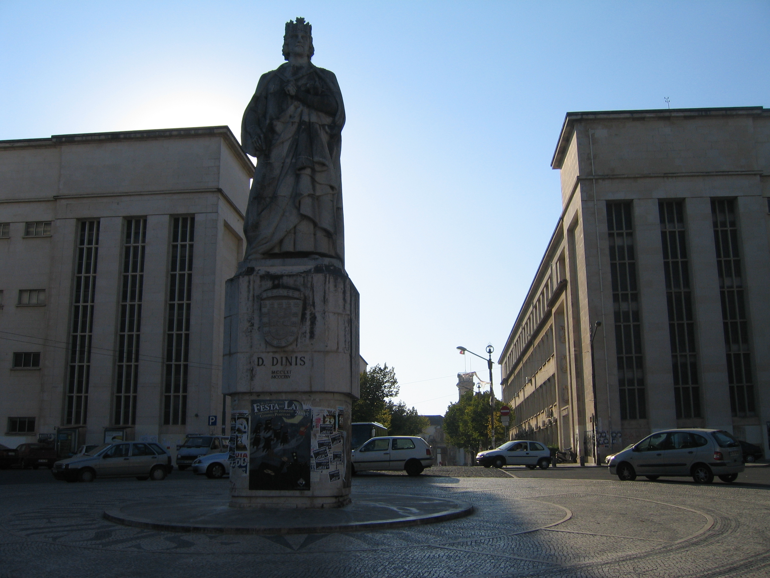 I made it myself with my own digital camera.